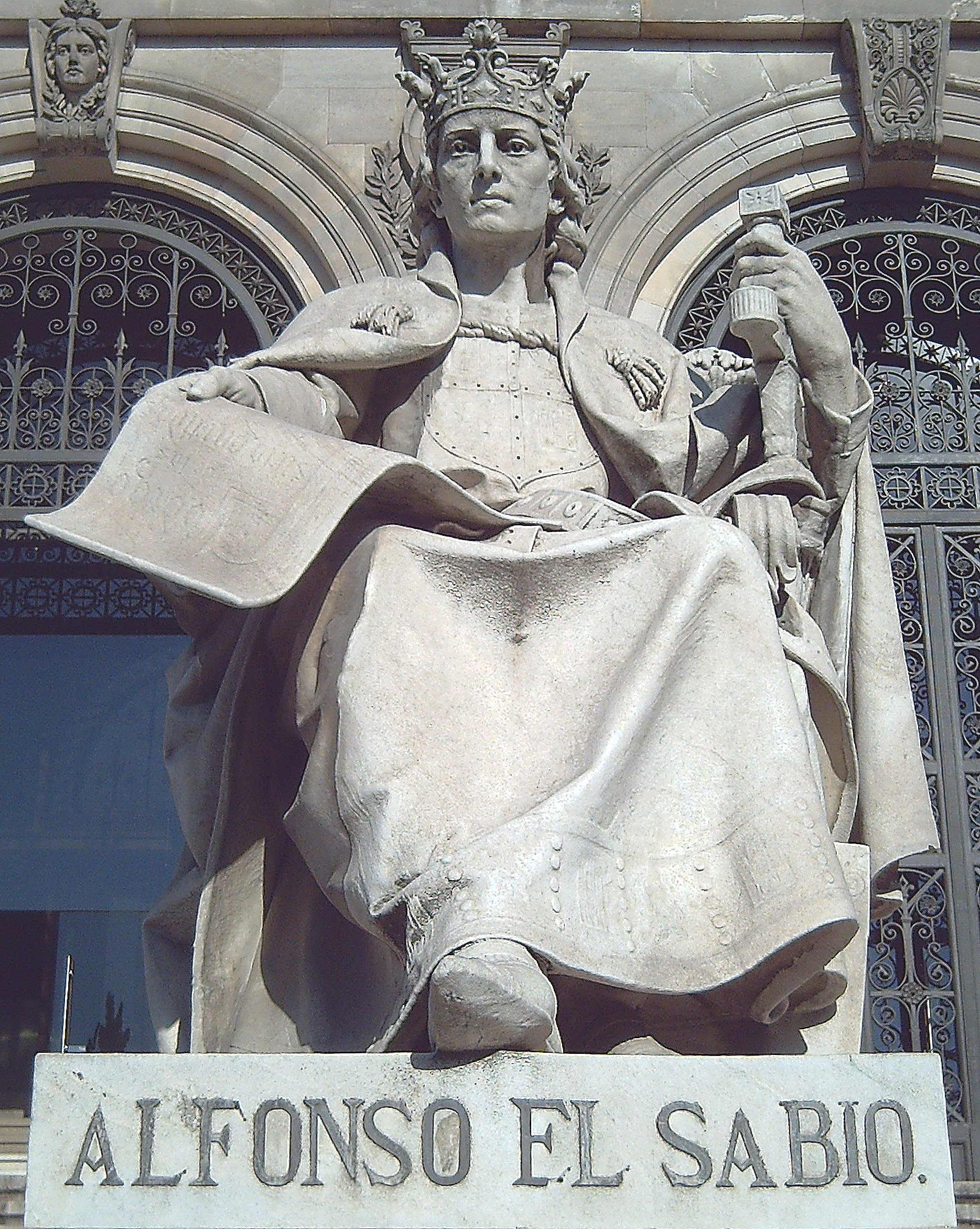 Statue of Alfonso X of Castile